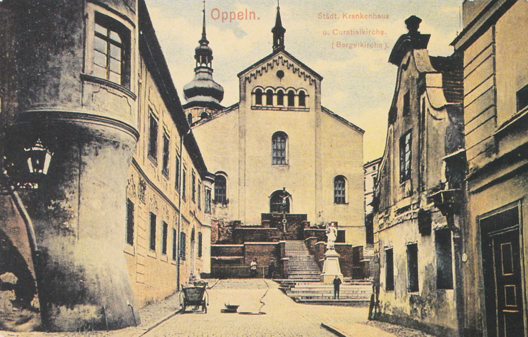 View of Church on the Hill in Opole